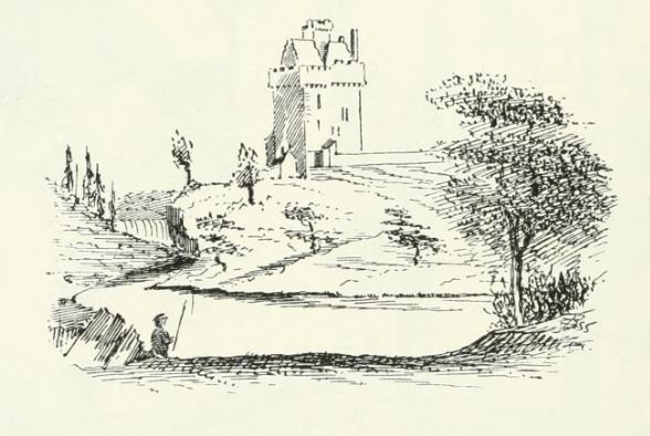 A sketch of Calderwood Castle published in 1887, a facsimile as found in "Castellated and Domestic Architecture of Scotland" by MacGibbon & Ross, which was based upon an original sketch described as signed "W. Binton, 1765" in the possession of the Royal Scottish Academy. It has been shown through examination of this sketch and similar that this actually reads "N. Britain", a reference to 'North Britain' as representing Scotland rather than a signature, and that the engraving is believed to be copied after a lost original by Sandby in addition to numerous others held by the King's topography collection at the British Library. This confusion caused the drawing to be lost to those trying to find it for the past 100 years. It was rediscovered in 2015, by Chris Ladds, and is now held by the National Galleries of Scotland.